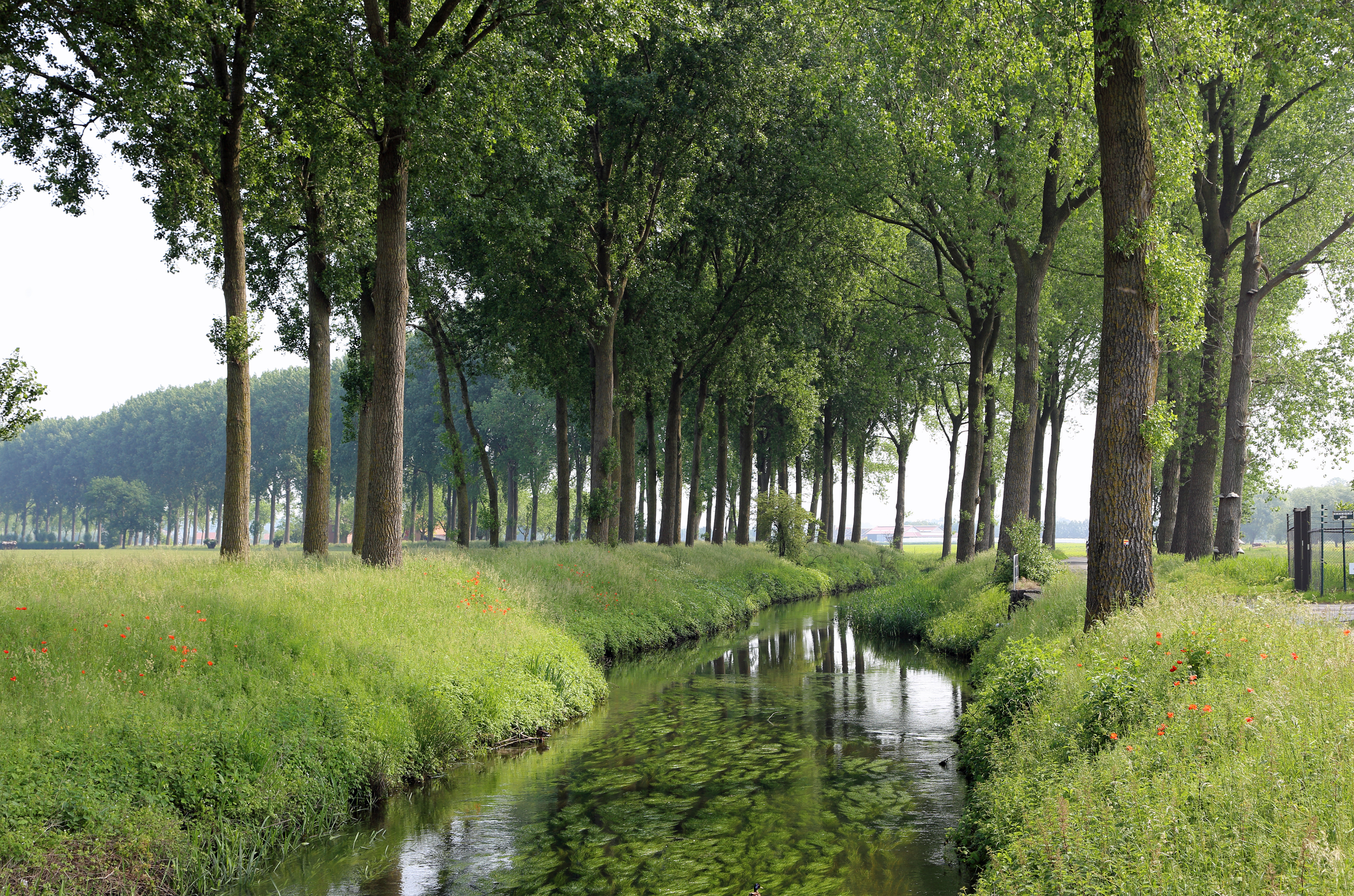 Sint-Kruis (Bruges, Belgium): the Zuidervaartje canal